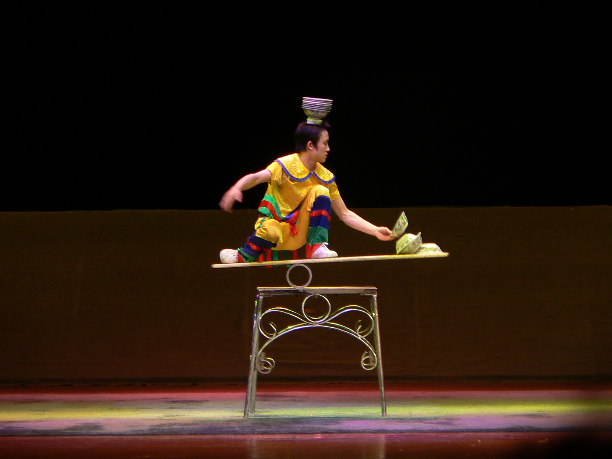 using a balance board as a catapult, as seen in the combination of this and the accompanying photo